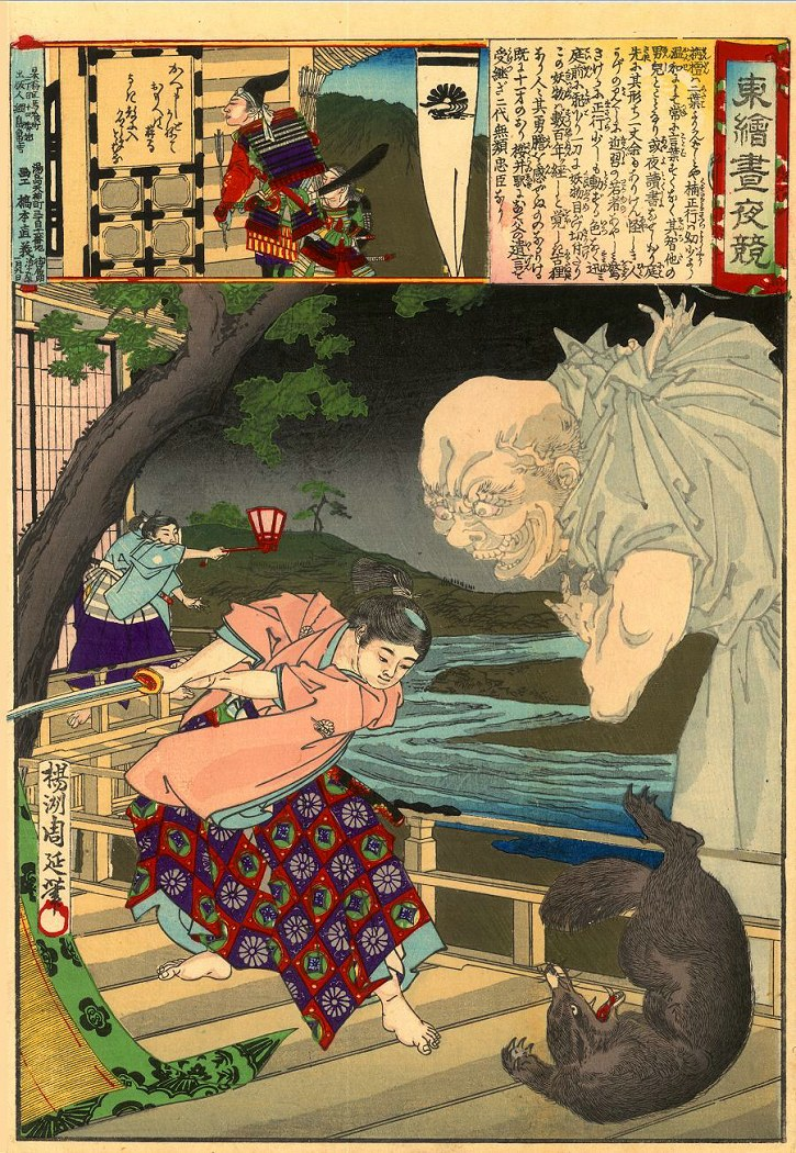 The main section shows Kusunoki Masatsura as a young man attacking a feared badger, the corporeal essence of an oni; the inset shows him composing his death poem